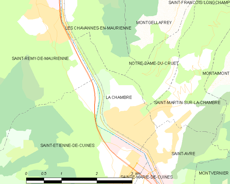 Map of French municipality